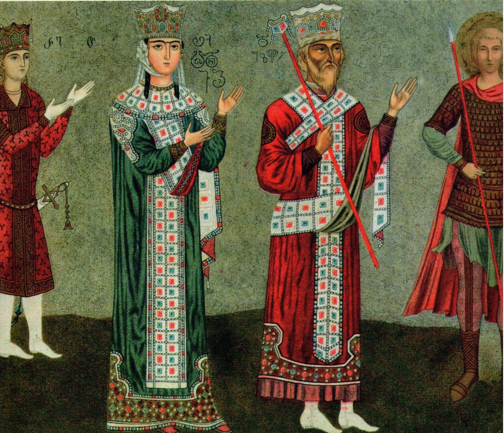 Queen Tamar and King George III, Mural Painting 11th Century, Georgia